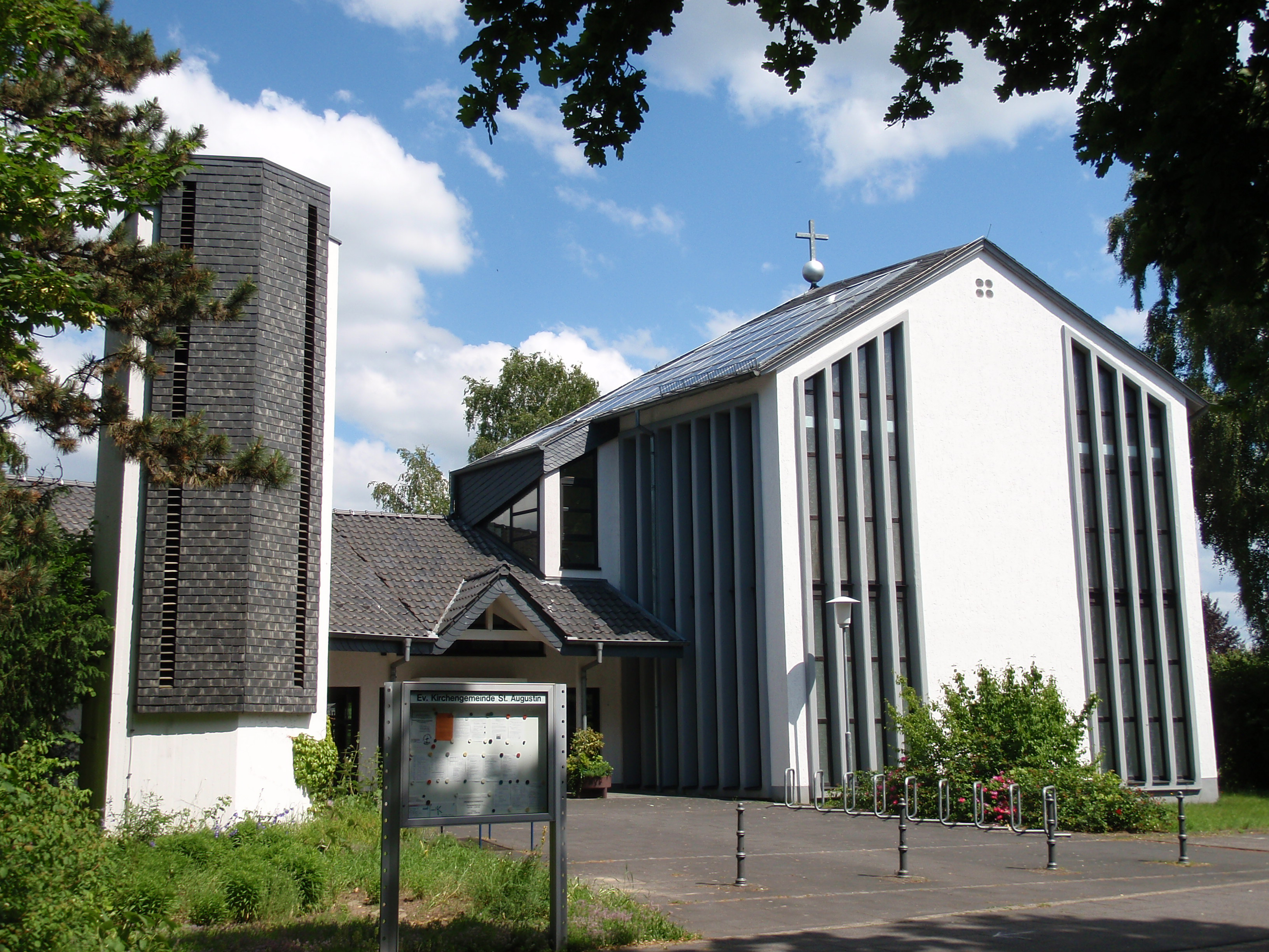 Photo of the Protestant church in Sankt Augustin-Ort, Germany.